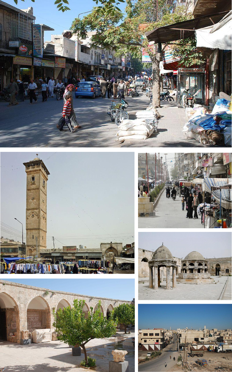 A collage of the Maarat al-Numaan city, Idlib Governorate, Syria. Top: Main Street, Ascription: Bertramz Source Right Block Top: City Bazaar, Ascription: Bernard Gagnon Source Right Block Middle: Courtyard of the Great Mosque of Maarrat al-Numan, Ascription: Bernard Gagnon Source Right Bottom Corner: East part of the Town from the Highway, Ascription: Bertramz Source Middle Left: Great Mosque of Maarrat al-Numan and its Minaret, Ascription: Bernard Gagnon Source Left Bottom Corner: Maarat al-Numaan Mosaic Museum, Ascription: Bertramz Source Creation, Collection & Work